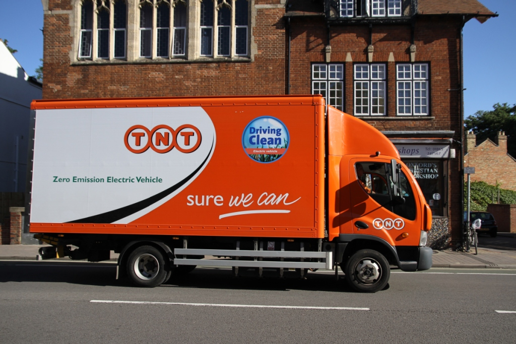 Smith Newton battery-electric van operated by TNT Express in St Clement's Street, Oxford, England